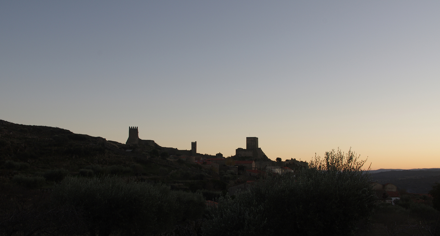 vista das muralhas do Castelo desde Norte